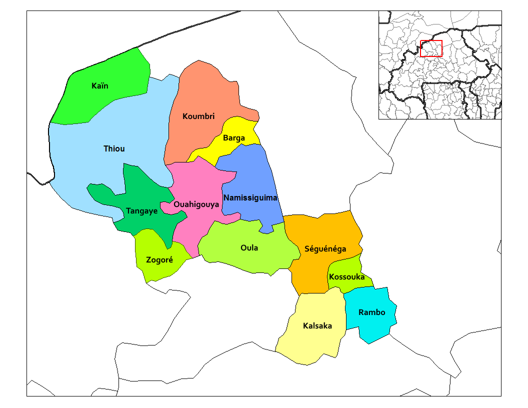 This map has been uploaded by Osiris fancy from to enable the Wikimedia Atlas of the World. Original uploader to was Rarelibra. Osiris fancy is not the creator of this map. Licensing information is below. Map of the departments of Yatenga province in Burkina Faso. Created by Rarelibra 03:39, 30 September 2006 (UTC) for public domain use, using MapInfo Professional v8.5 and various mapping resources.